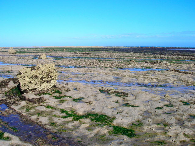 Rocks and Rock Pools Smoothed out gault clay on the beach below Beachy Head at low tide.